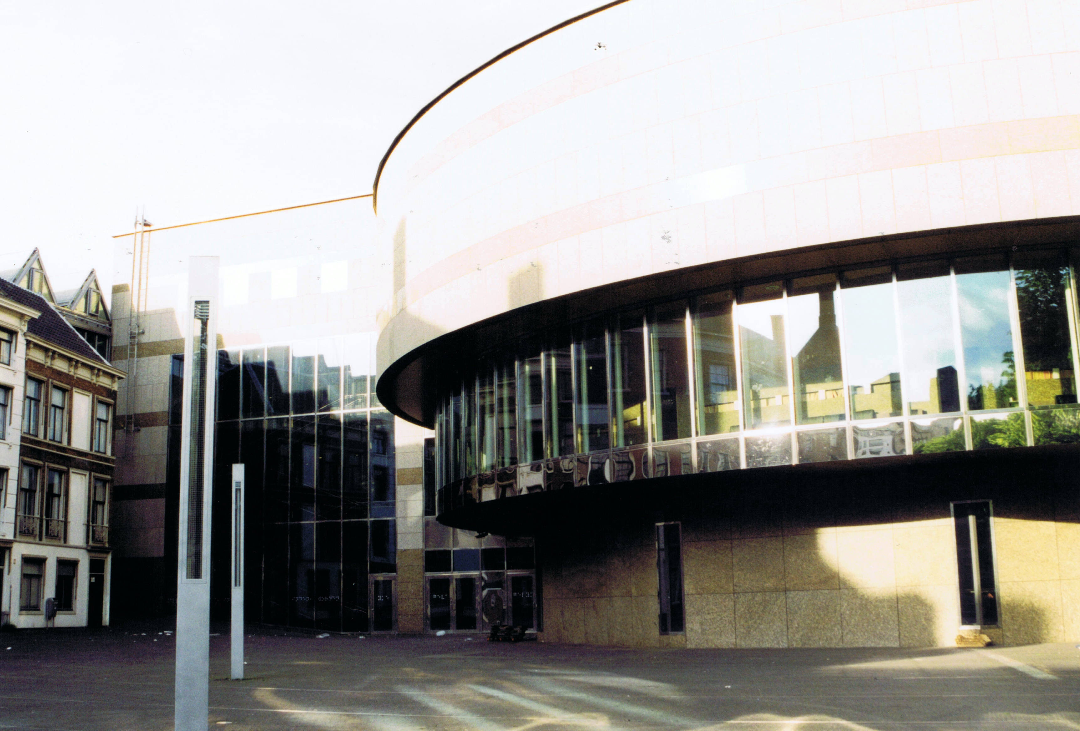 Den Haag; spring 2001. Tweede Kamer; dutch Parliament building.